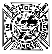 A Cross and Crown laid upon the Cross Pattée inscribed with "In Hoc Signo Vinces" resting upon crossed swords is often used in to represent the Knights Templar.